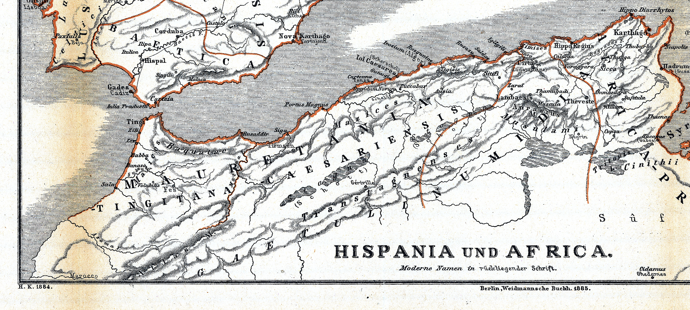 maps of roman provinces, from the book "Römische Provinzen", part V, by Theodor Mommsen; cutout from File:Karte aus dem Buch Römische Provinzen von Theodor Mommsen 1921 09.jpg